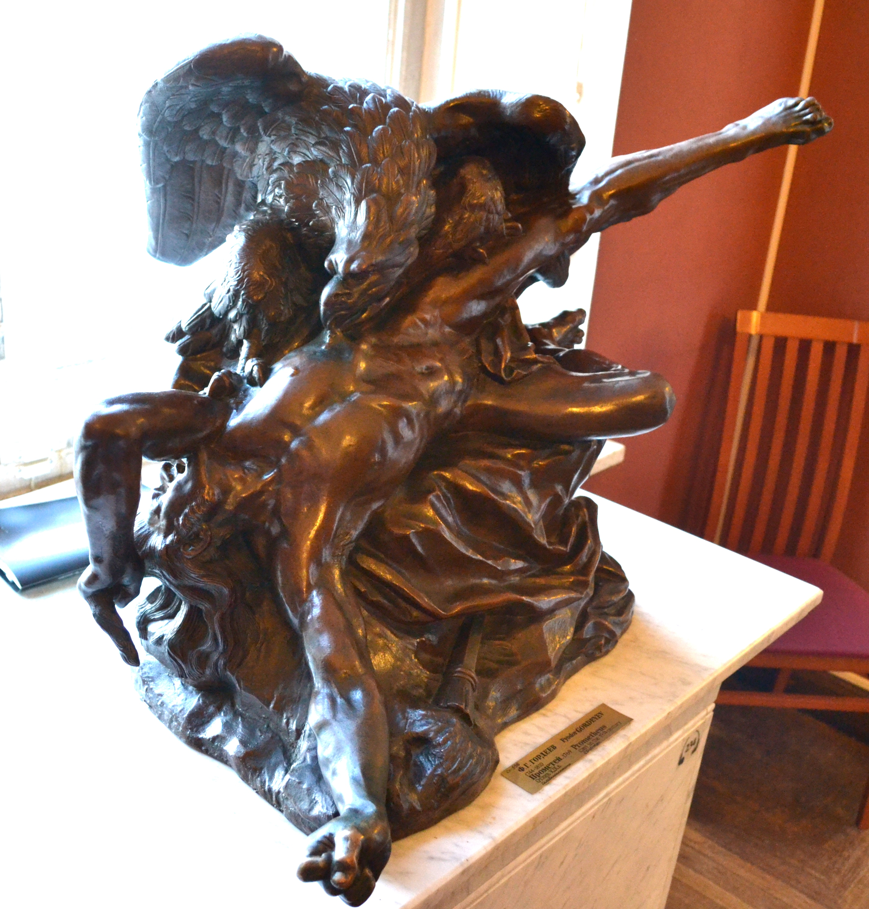 Fyodor Gordeev Prometheus Sculpture in Russian Museum